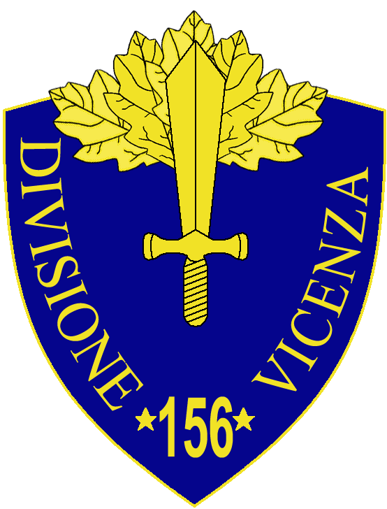 156a Divisione Fanteria Vicenza insignia, Regio Esercito, Italy, WWII